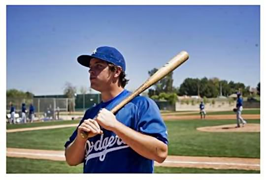 jtwise